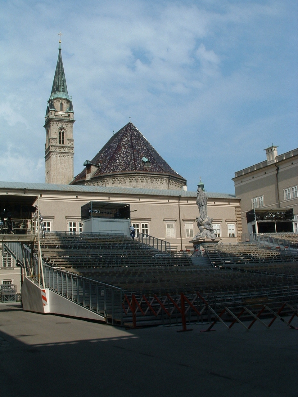 Salzburg Domplatz, Jedermanntheatre Photograph by Gakuro 2006